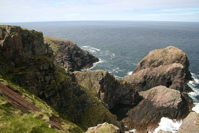 Beyond the lighthouse These rocks form the very north-west tip of Scotland, at Cape Wrath.